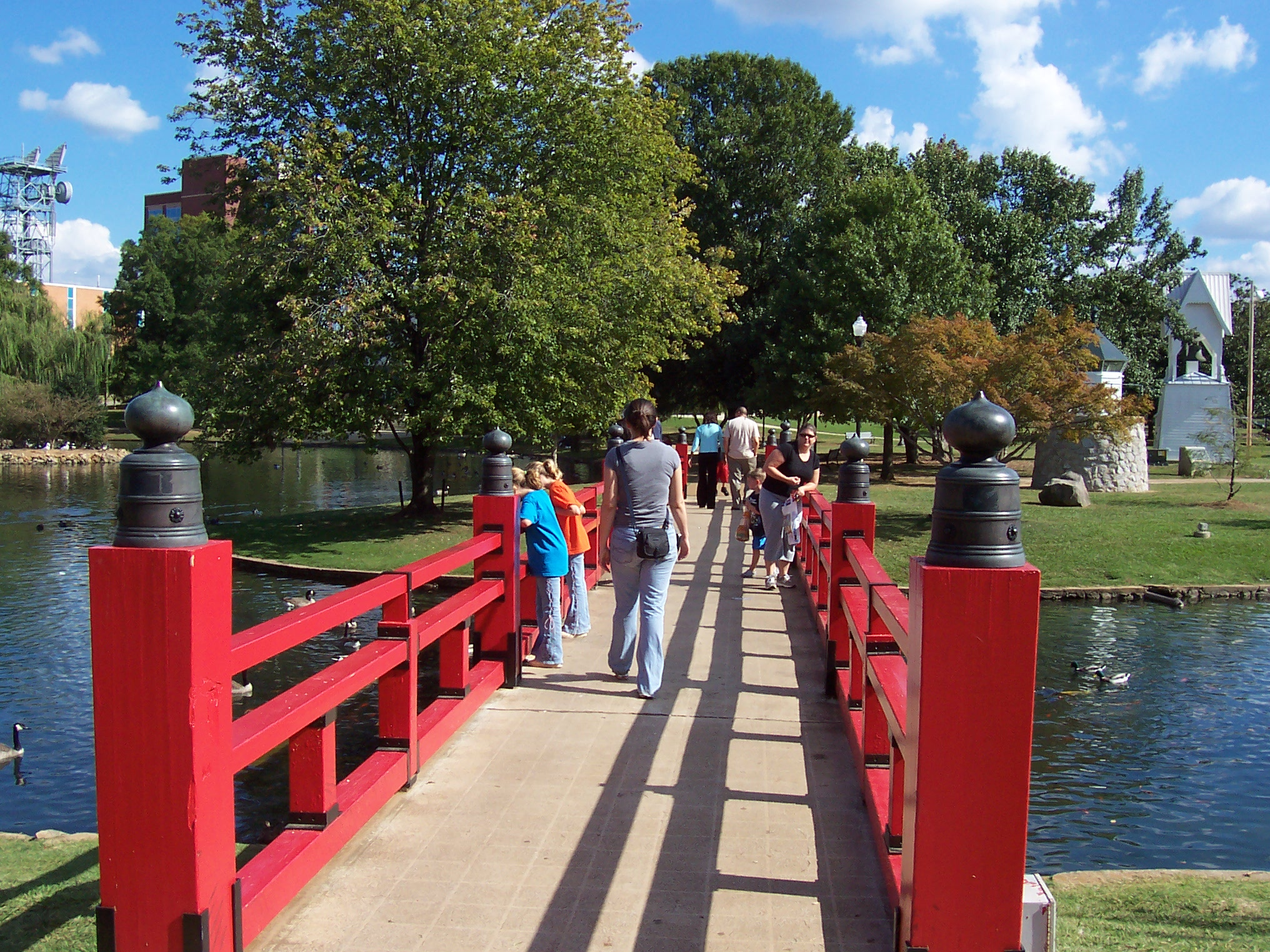 The Japanese Bridge in Big Spring International Park in Huntsville, Alabama.